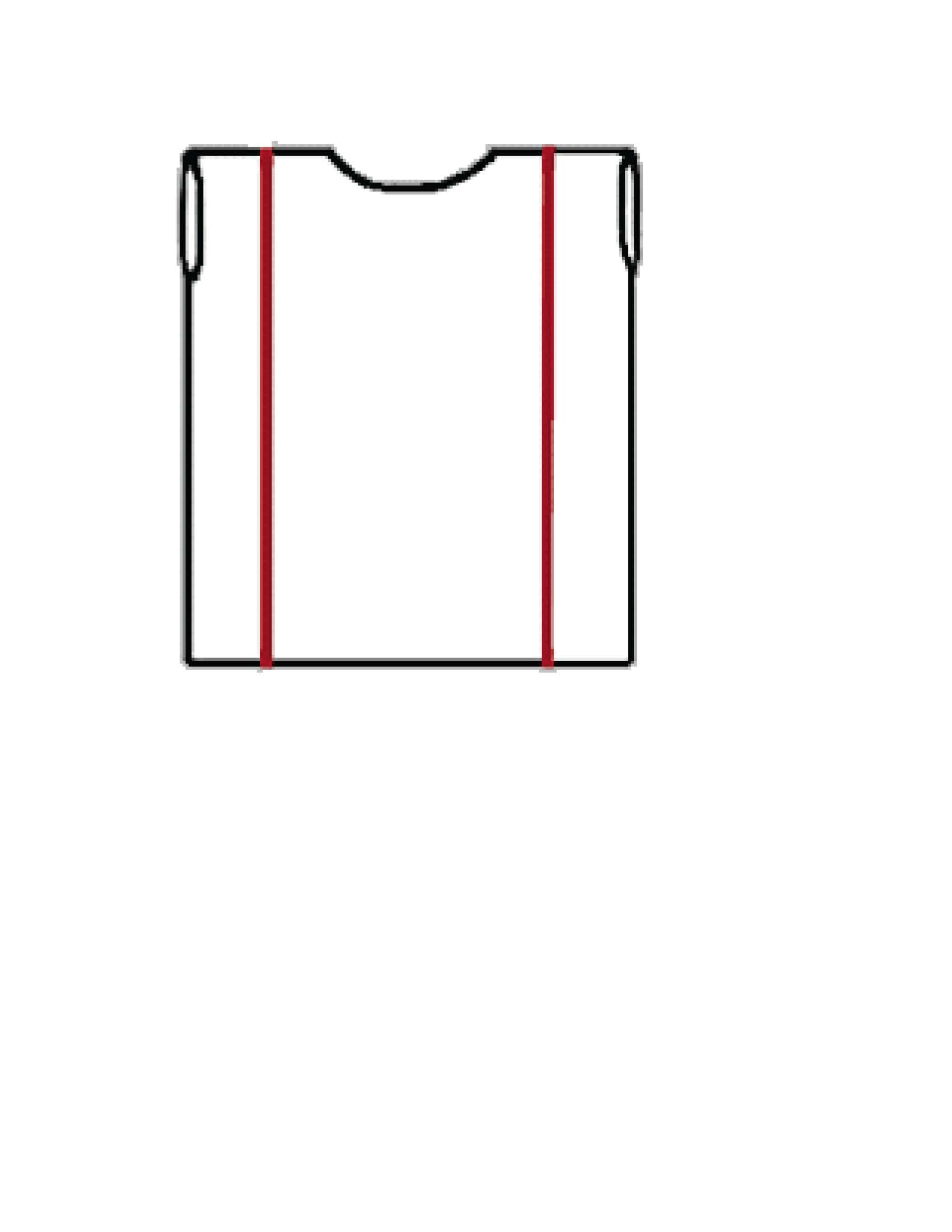 The toga used by Romans of the Equestrian rank.